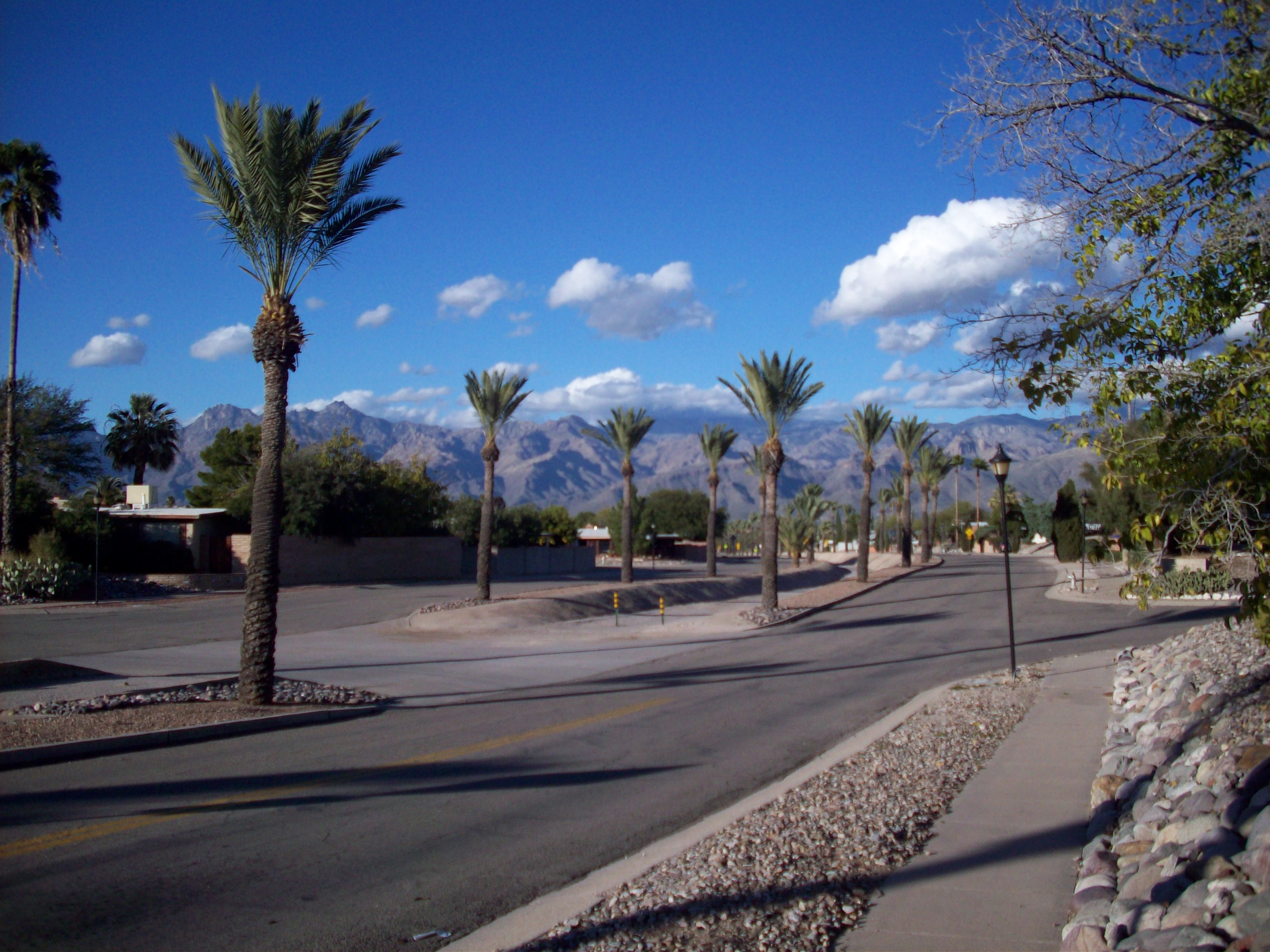 Picture of the Avenida Ricardo Small, the major street of the Desert Palms Park neighborhood in Tucson, Arizona